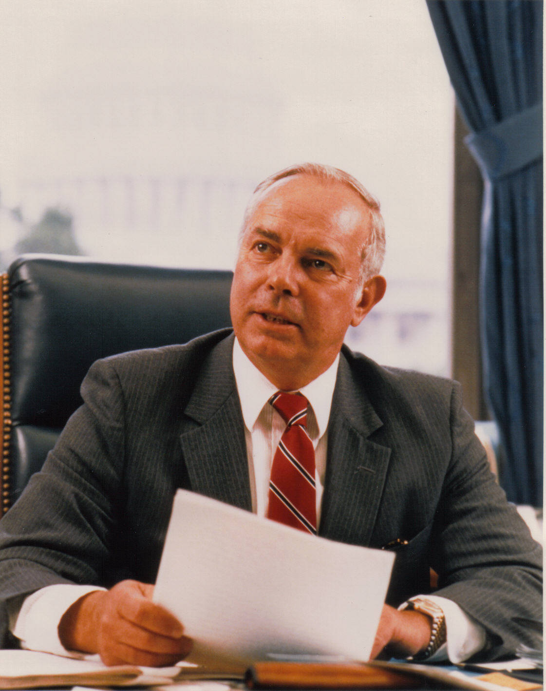 Norman F. Lent at his desk, Room 2408 Rayburn House Office Bldg., Washington, DC 20515